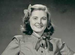 Billie Lou Watt in Kiss and Tell in 1945